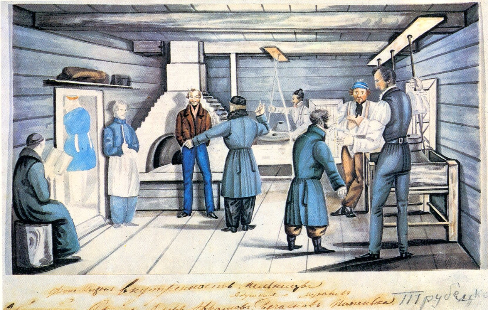 N. P. Repin (1796-1831). Chita. Decembrists at a Mill.